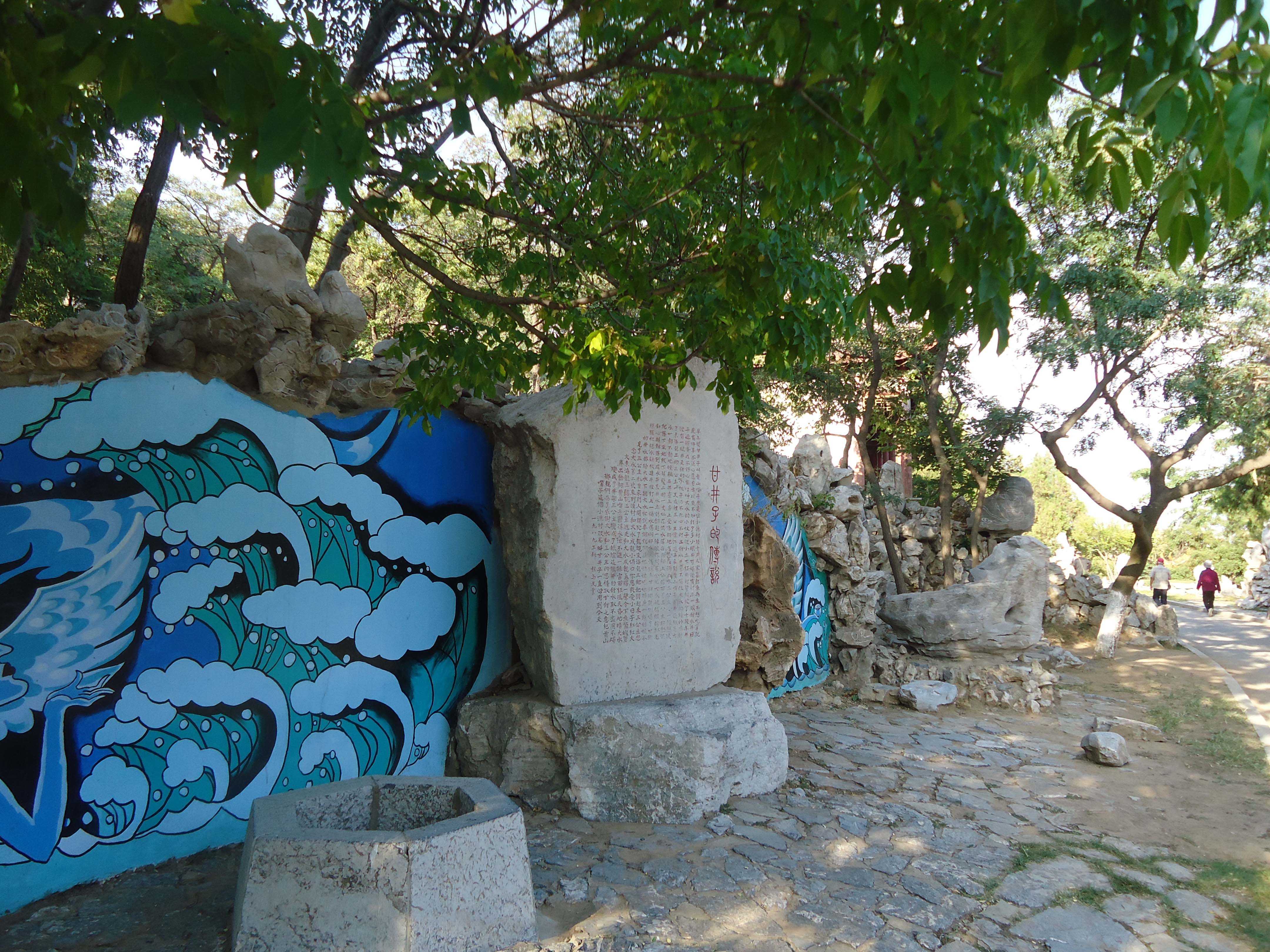 Stele of Ganjingzi Legend, Ganjingzi Park, Dalian, Liaoning, China